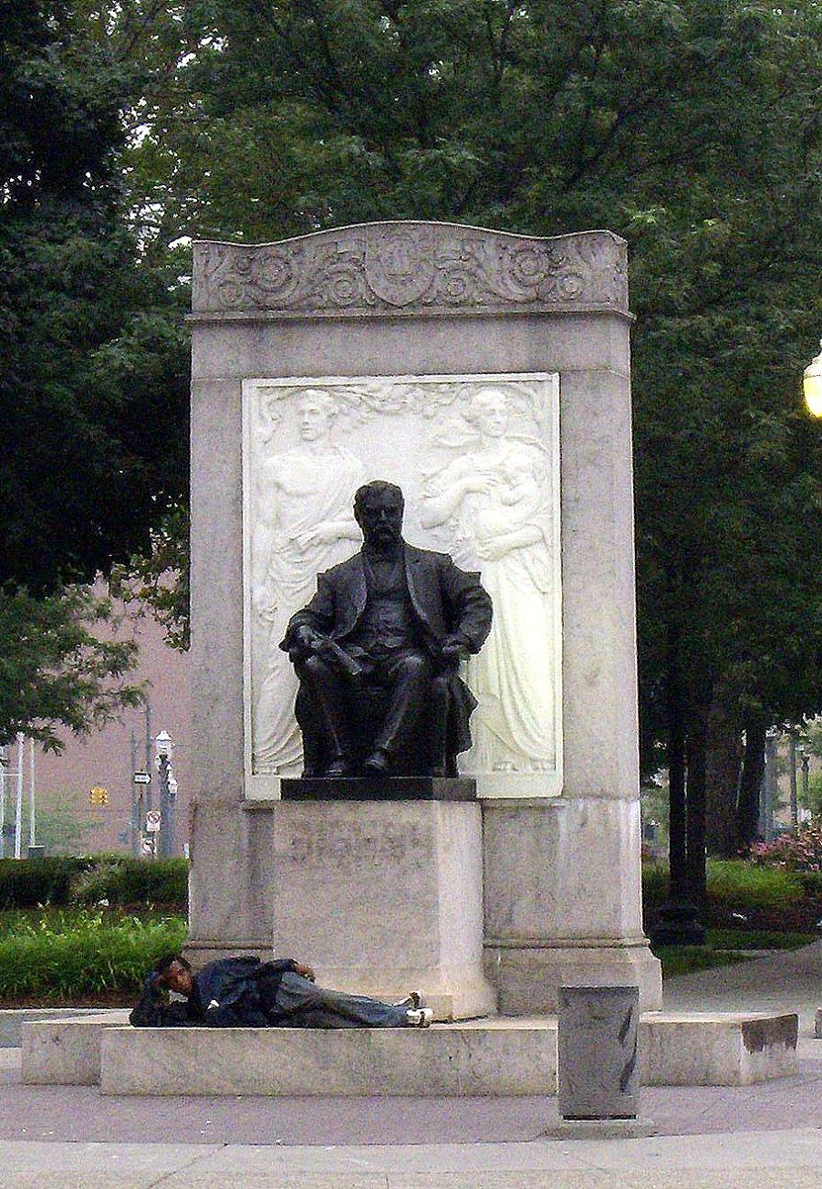 Detroit Mayor William Cotter Maybury statue, (Cousin of William H Maybury) Grand Circus Park, Detroit